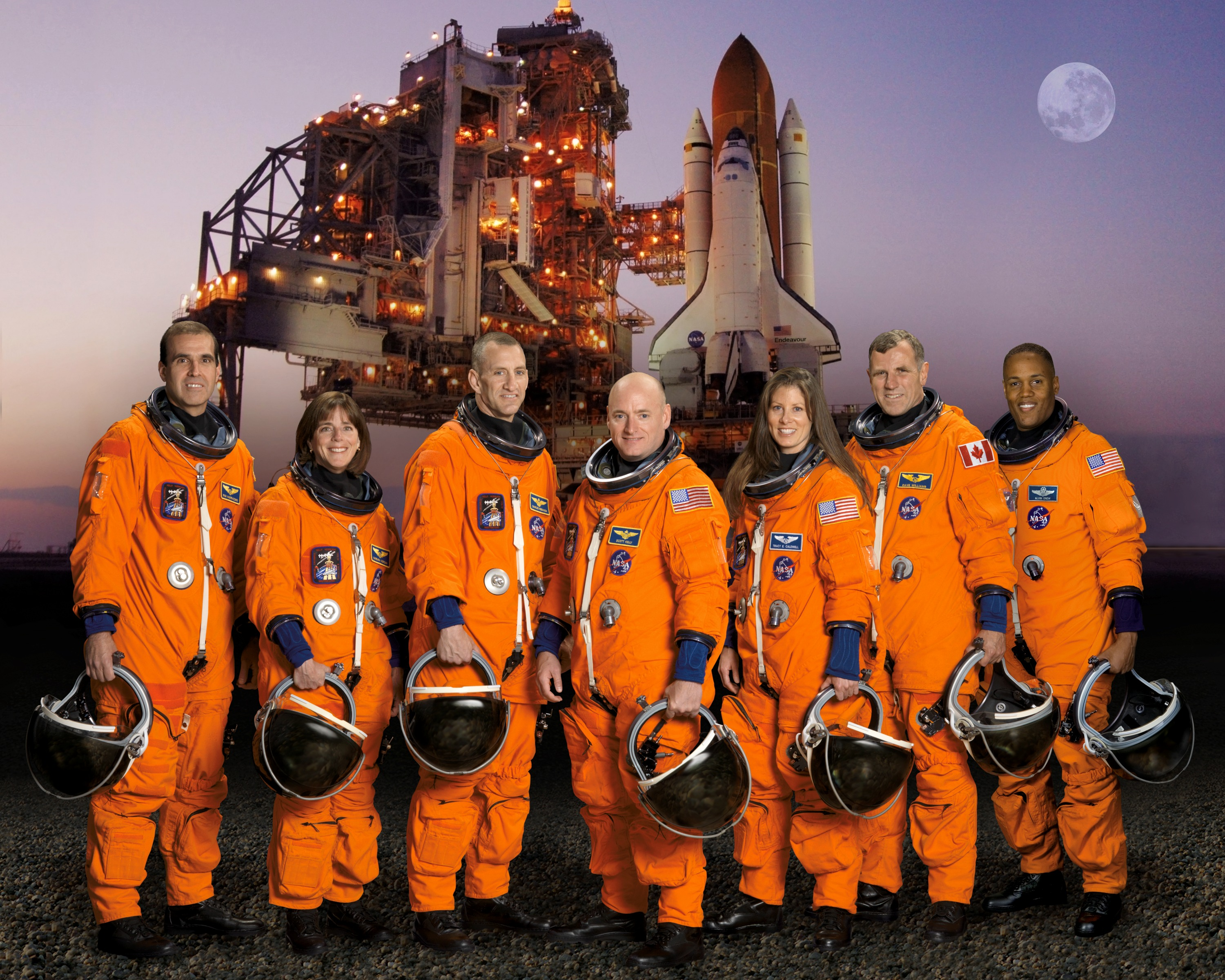 STS-118 crew official portrait. Pictured from the left are astronauts Richard A. (Rick) Mastracchio, mission specialist; Barbara R. Morgan, a mission specialist and NASA's first educator astronaut; Charles O. Hobaugh, pilot; Scott J. Kelly, commander; mission specialists Tracy E. Caldwell, Canadian Space Agency's Dafydd R. (Dave) Williams, and B. Alvin Drew. The crewmembers are attired in training versions of their shuttle launch and entry suits. NASA astronaut Clayton C. Anderson was to have joined Expedition 15 as flight engineer after launching to the International Space Station aboard Space Shuttle Endeavour on mission STS-118, but was rescheduled and sent to the ISS early, on STS-117.